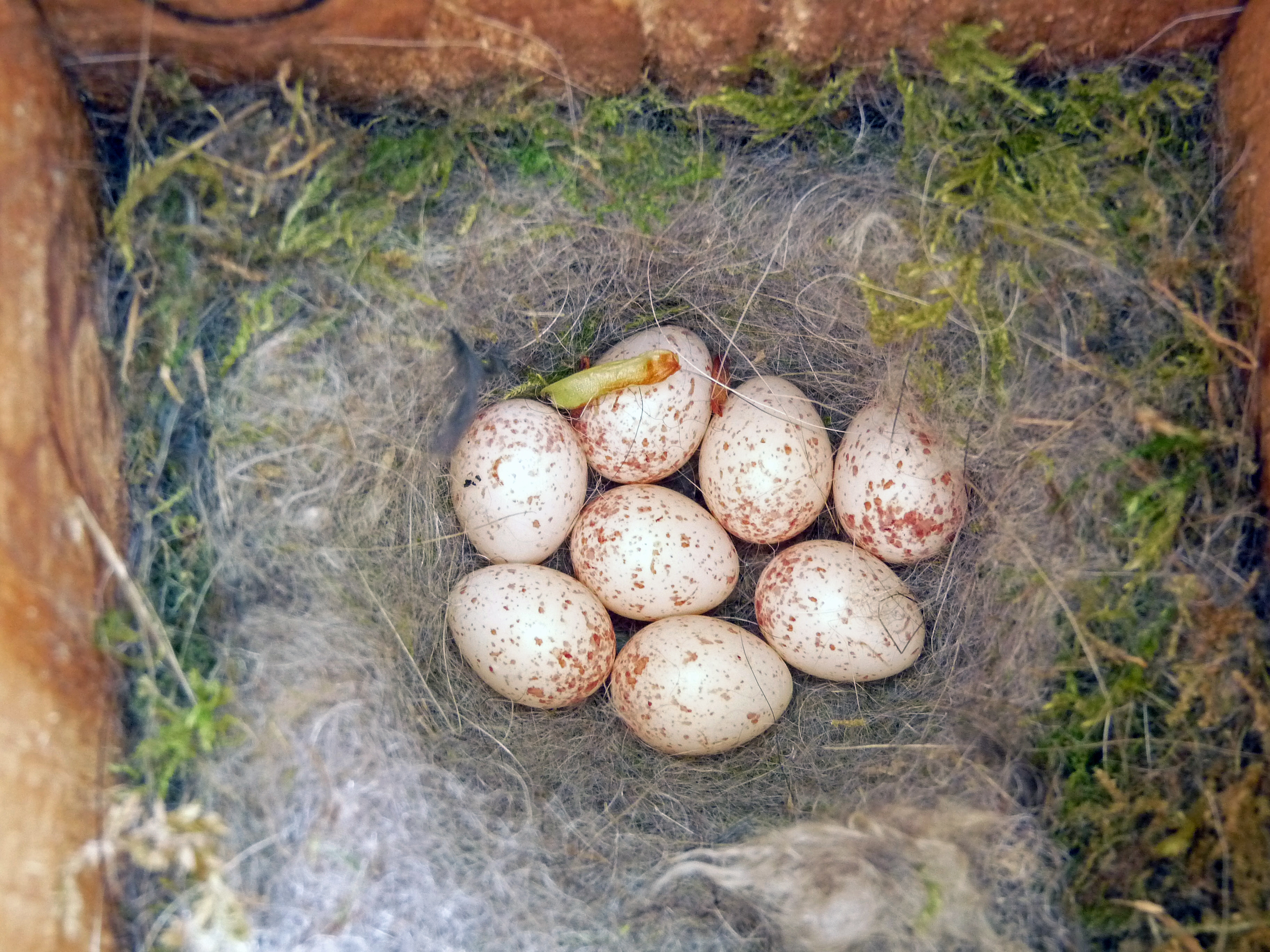 Latin name Parus major Family Tits (Paridae) Overview The largest UK tit - green and yellow with a striking glossy black head with... Where to see them ... When to see them All year round. What they eat Insects, seeds and nuts.